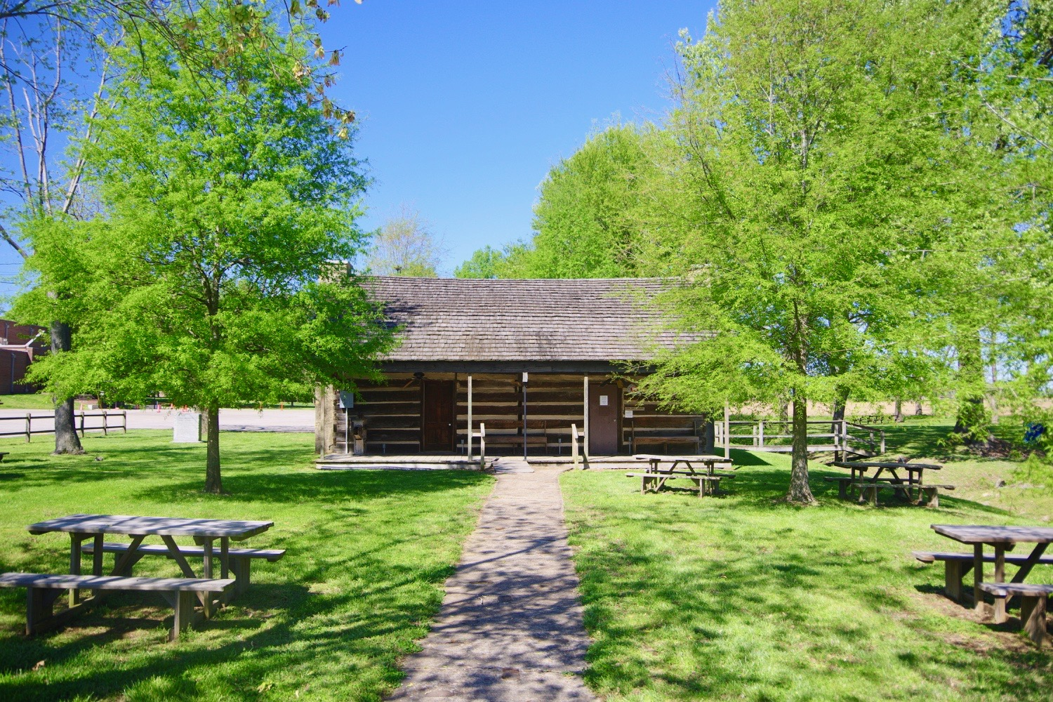 Reconstruction of the "last home" of frontiersman Davy Crockett (1786–1836) in Rutherford, Tennessee, United States.